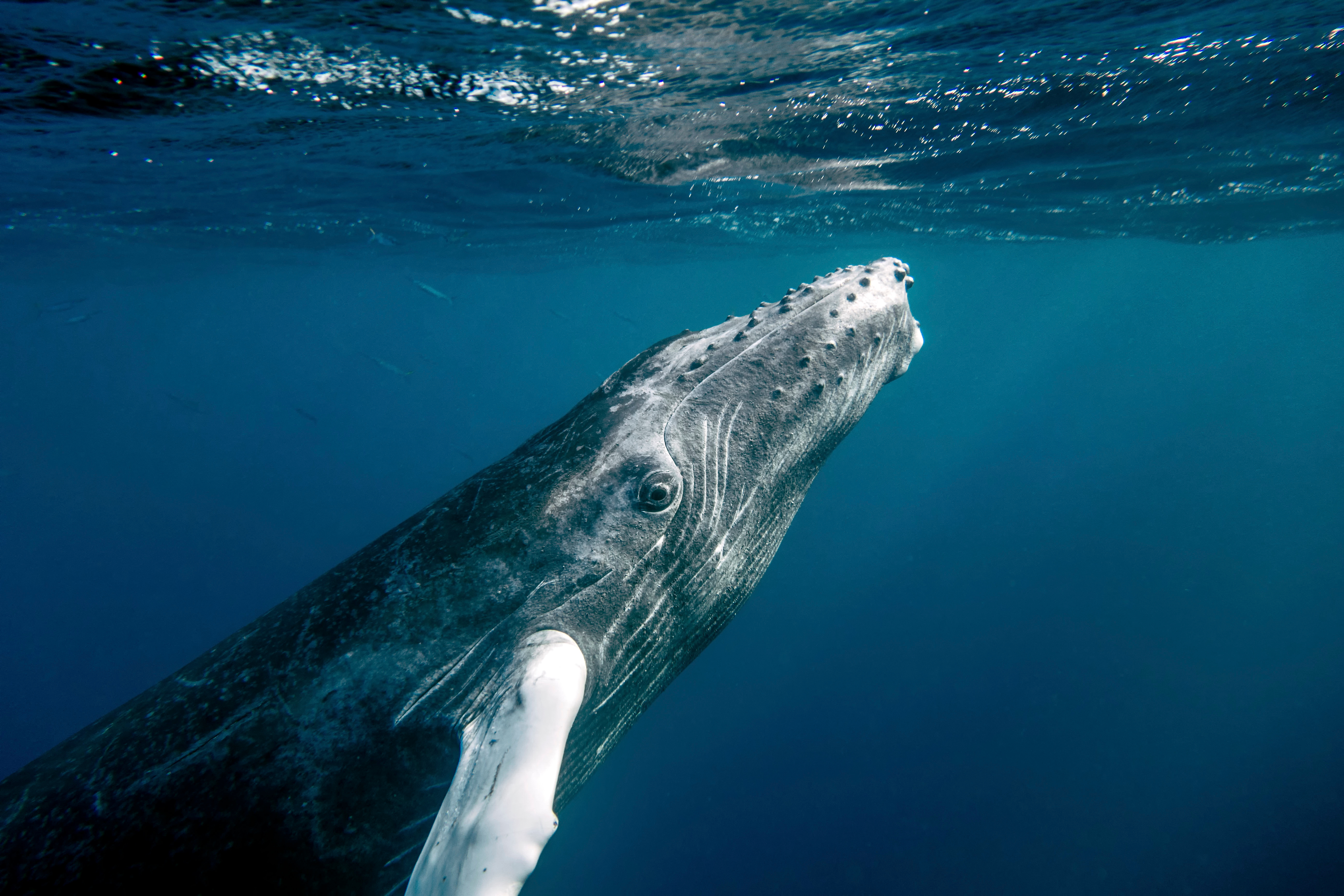 A baby humpback whale comes by for closer look. Dominican Republic.